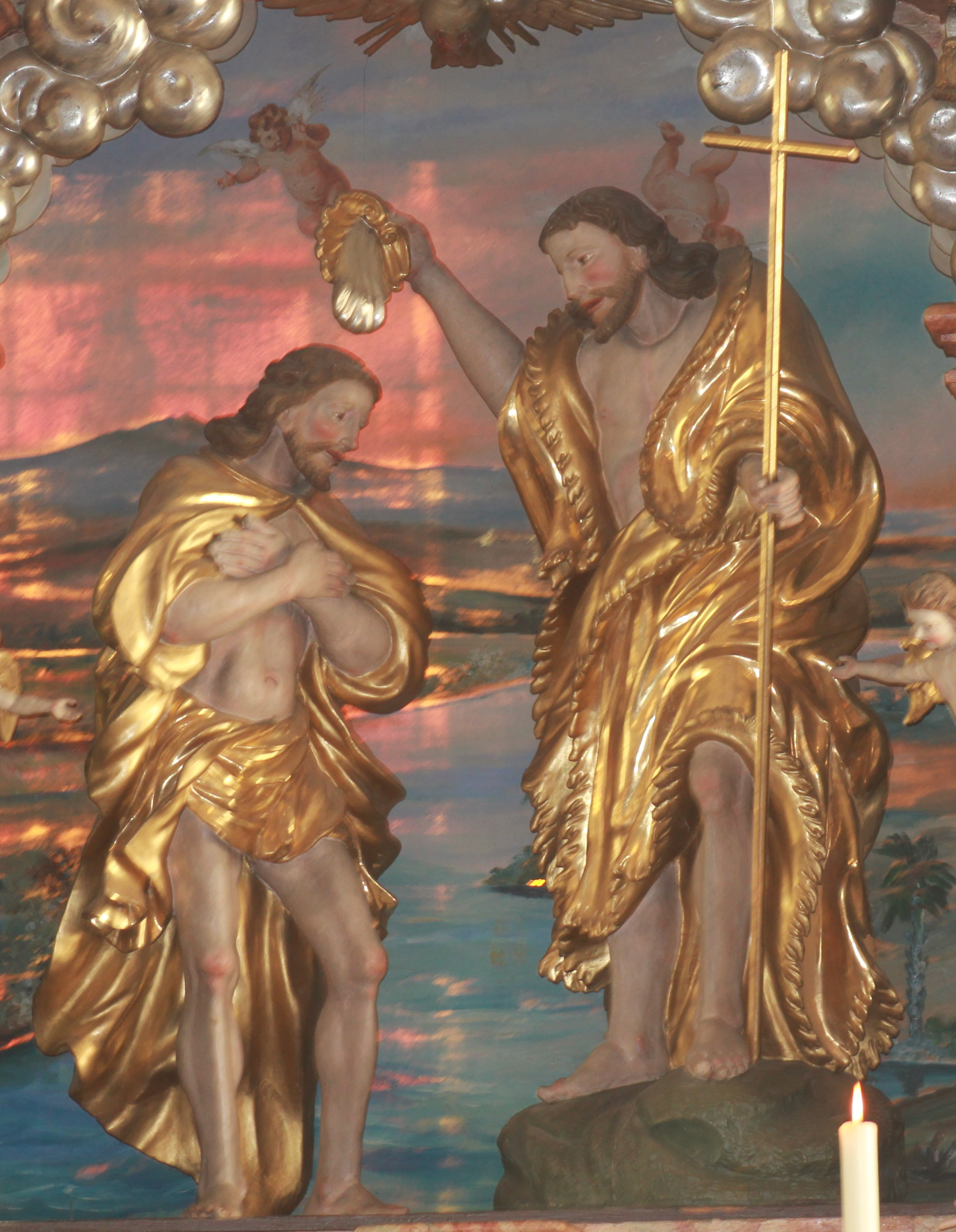 Parish church in Zweikirchen in the community of Liebenfels - Main-altar: Baptism of Christ